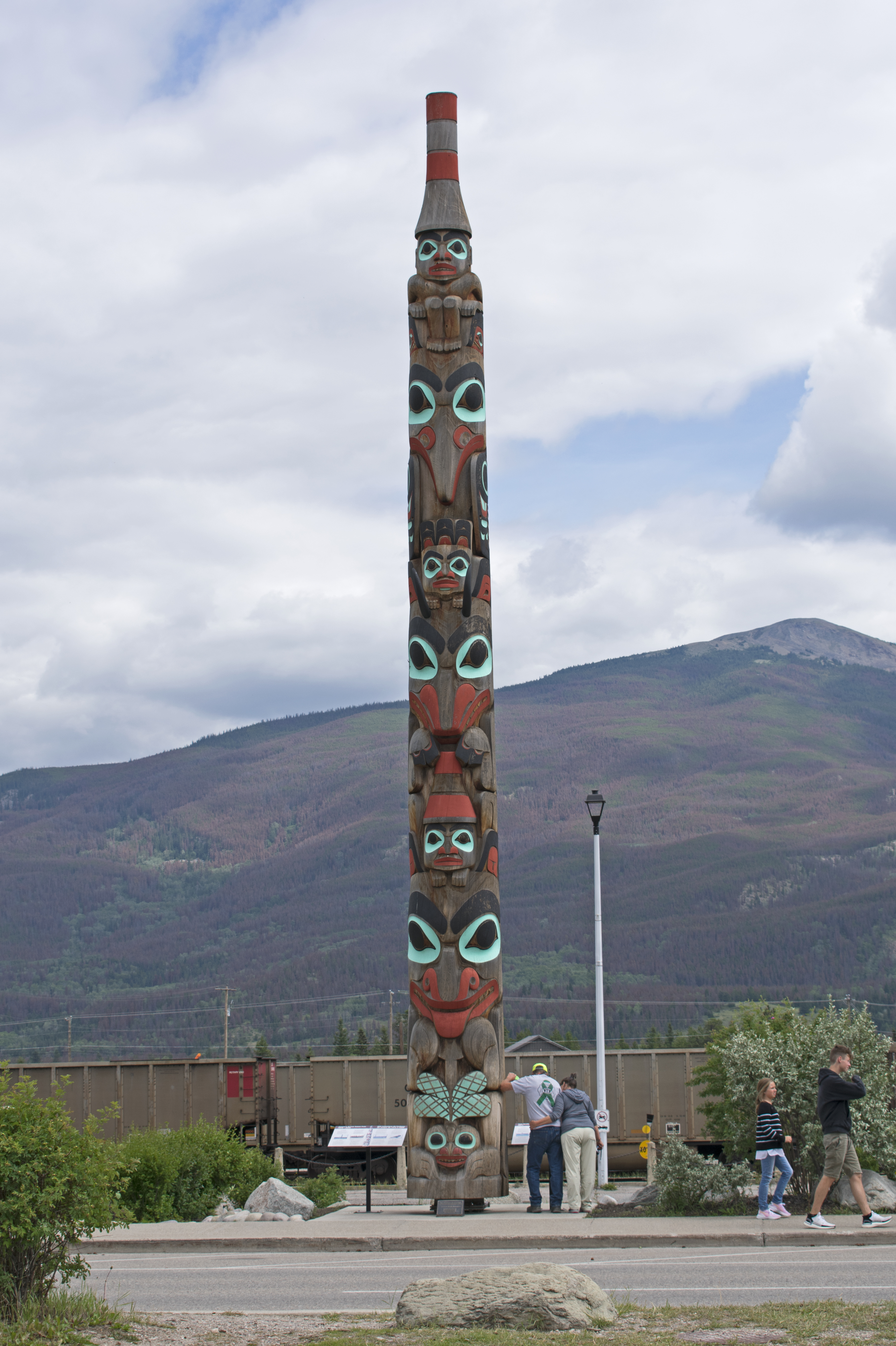 Two Brothers totem pole, Jasper. My photograph. The pole was made in 2011 by Haida carvers Jaalen Edenshaw and Gwaai Edenshaw.